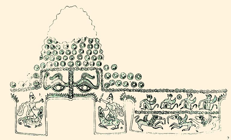 Golden Helmet of Coţofeneşti archaeological sketch showing mythological scenes.